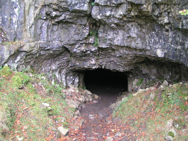 Yordas Cave. Former show cave, now freely accessible. The low entrance leads straight into a large cavern with a waterfall in a separate chamber (the Chapter House) at the top end. Easily and safely explored with a domestic torch and waterproof footwear.